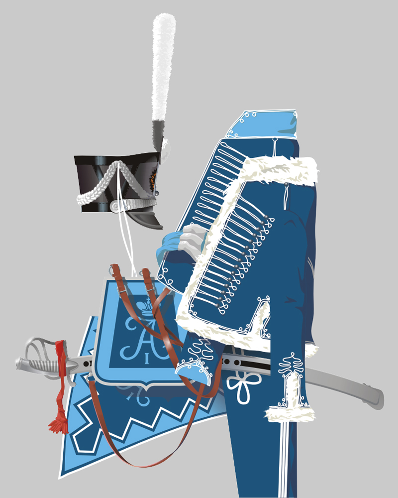 Trooper of Grodno Hussar regiment’s full dress: dolman, pelisse, barrel sash, breeches, shako (here of 1812), shabraque, sabretache & sabre. Russian army of 1812